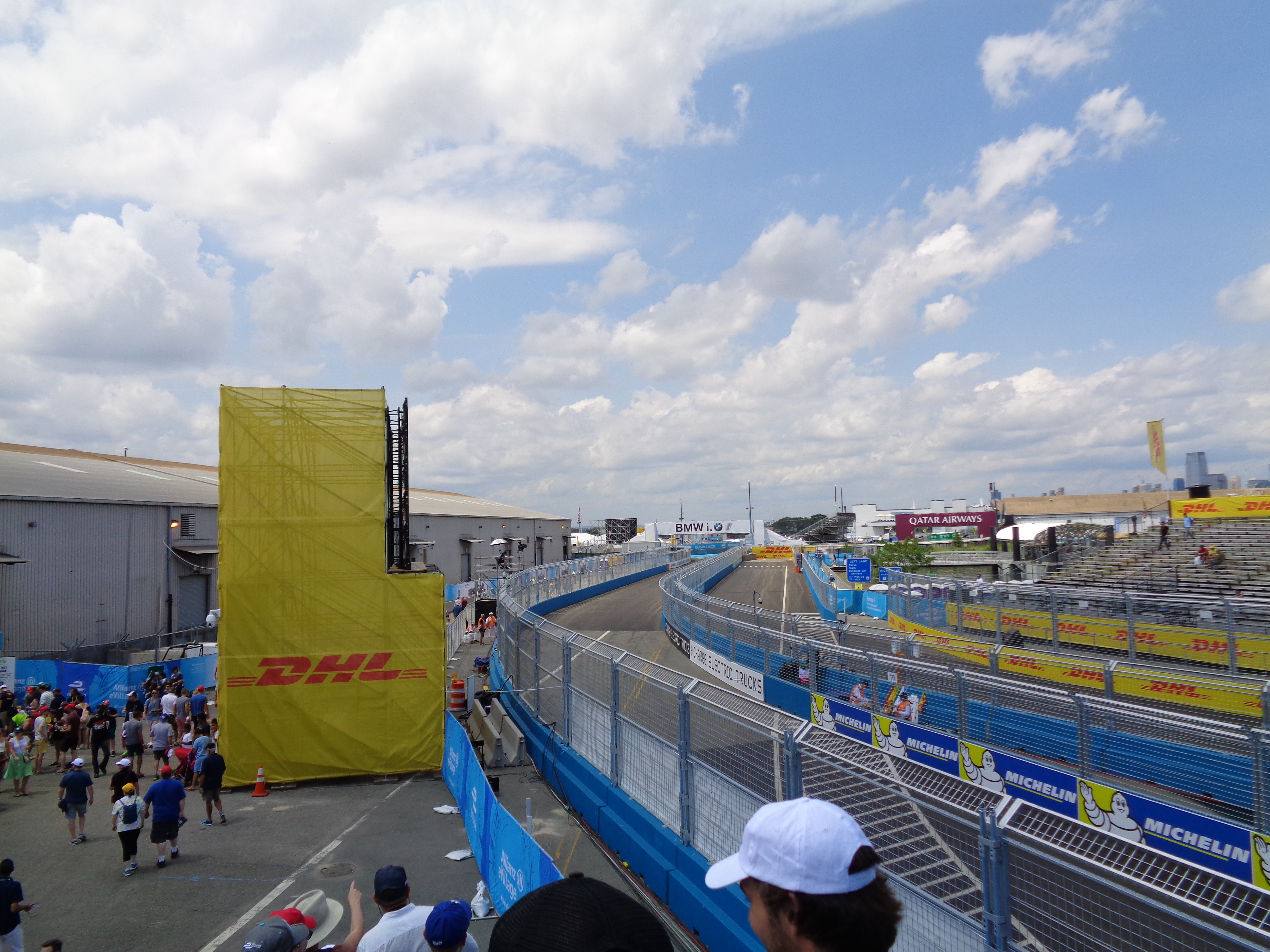 The first race of the 2017 New York City ePrix in Red Hook, Brooklyn, on Saturday, July 15, 2017.